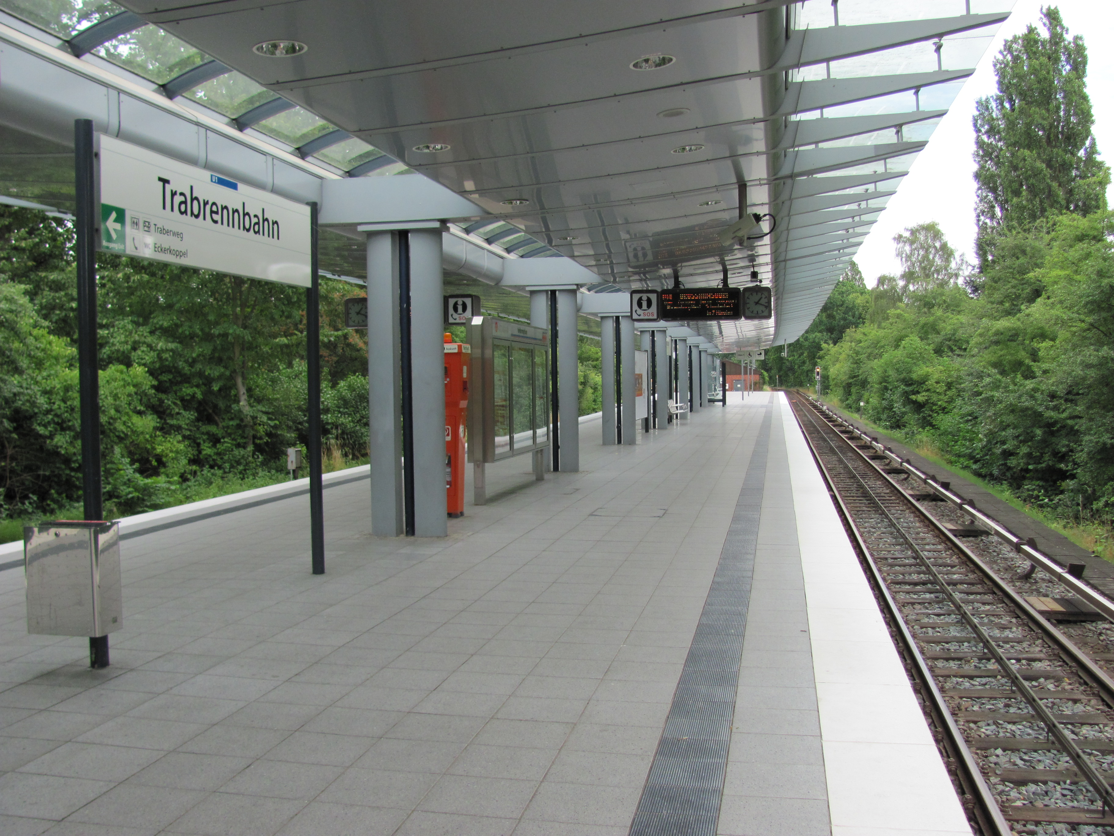 U-Bahn station Trabrennbahn in Hamburg, Germany